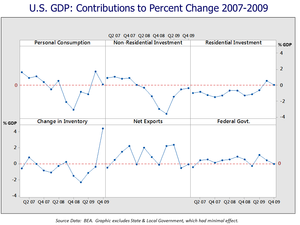 This small multiple chart or panel chart shows six of the major components of GDP and how they contributed to the percent change in real GDP each quarter over the 2007-2009 period. The change in state and local spending had minimal impact; the six components are otherwise a complete accounting of the change. For example, in Q4 2008 real GDP declined 8.3%. Personal consumption expenditures represented -3.08, nonresidential fixed investment -3.00, Residential -1.29, change in inventory -1.45, net exports -.08, federal spending +.56, state and local spending +0. Source data is Table 1.1.2 "Contributions to Percent Change in Real Domestic Product". Click on "modify" and indicate the 2007-2009 date range for the information in the table. The graph was created using Minitab software.